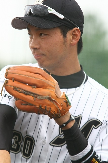 Hiroto Ikuyama, infielder of the Chiba Lotte Marines.